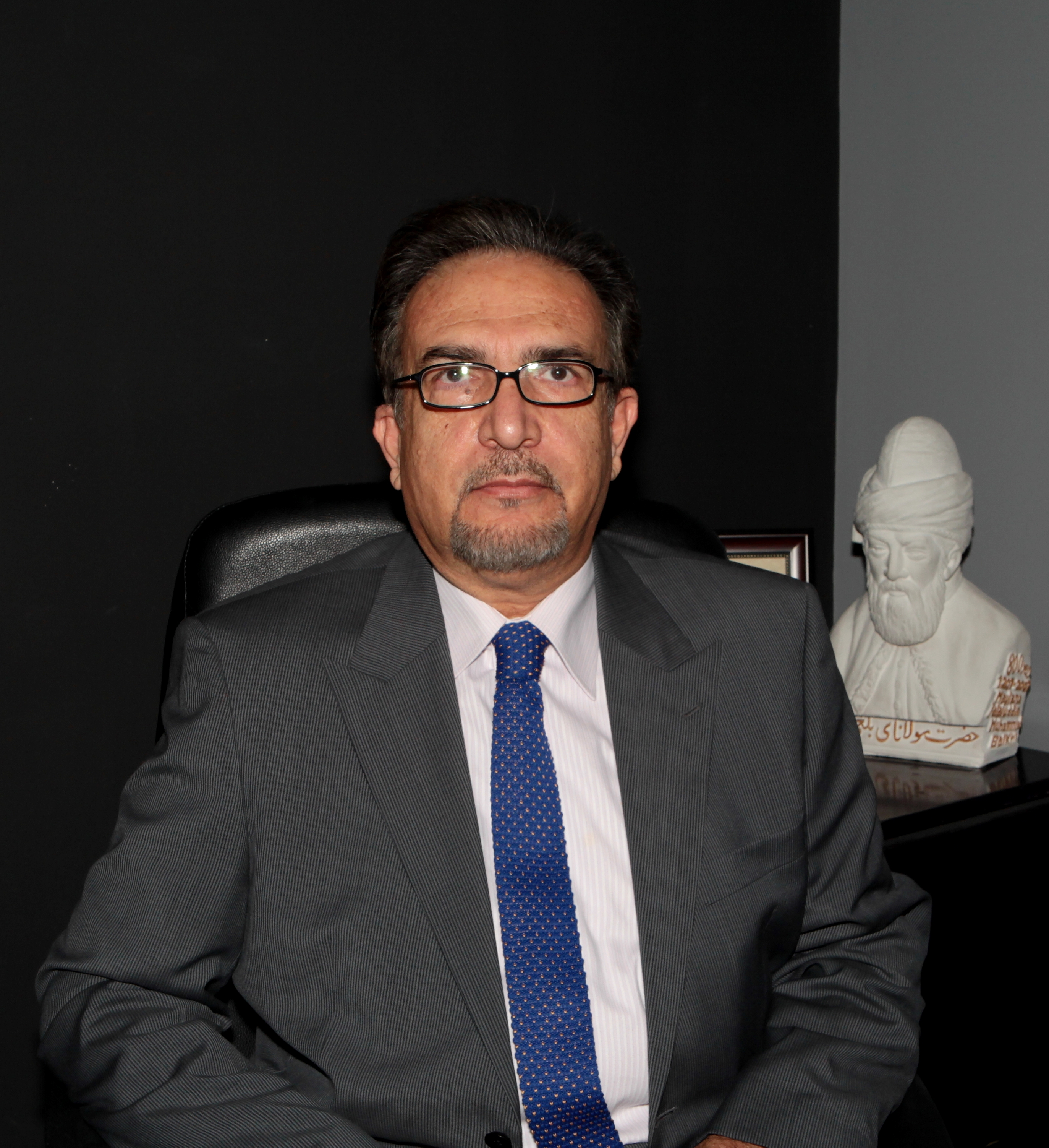 Nabil Miskanyar